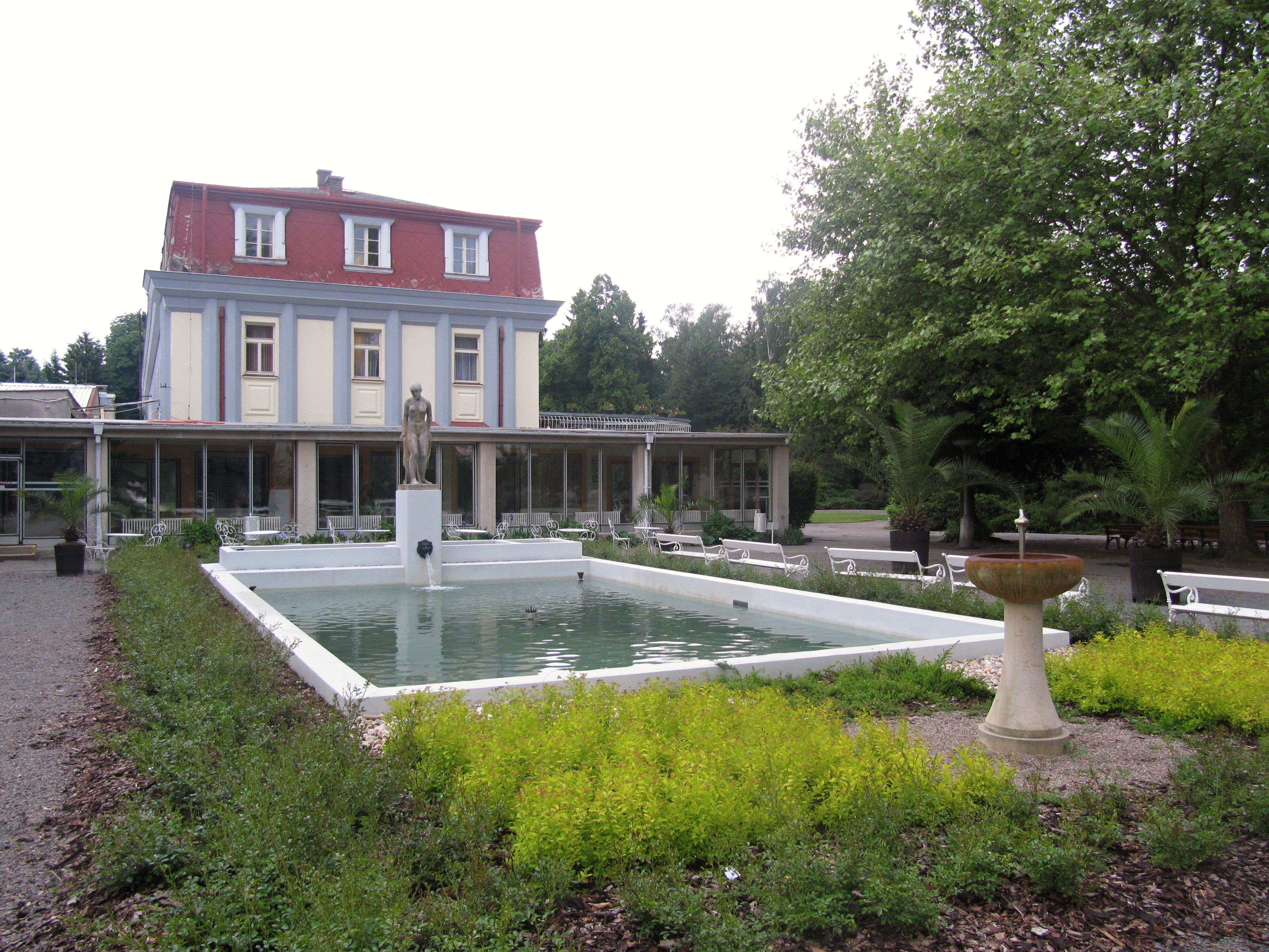 Lázně Bohdaneč in Pardubice District, Czech Republic. Pool from 1929 in the spa area with a statue of Venus by Josef Jiříkovský.